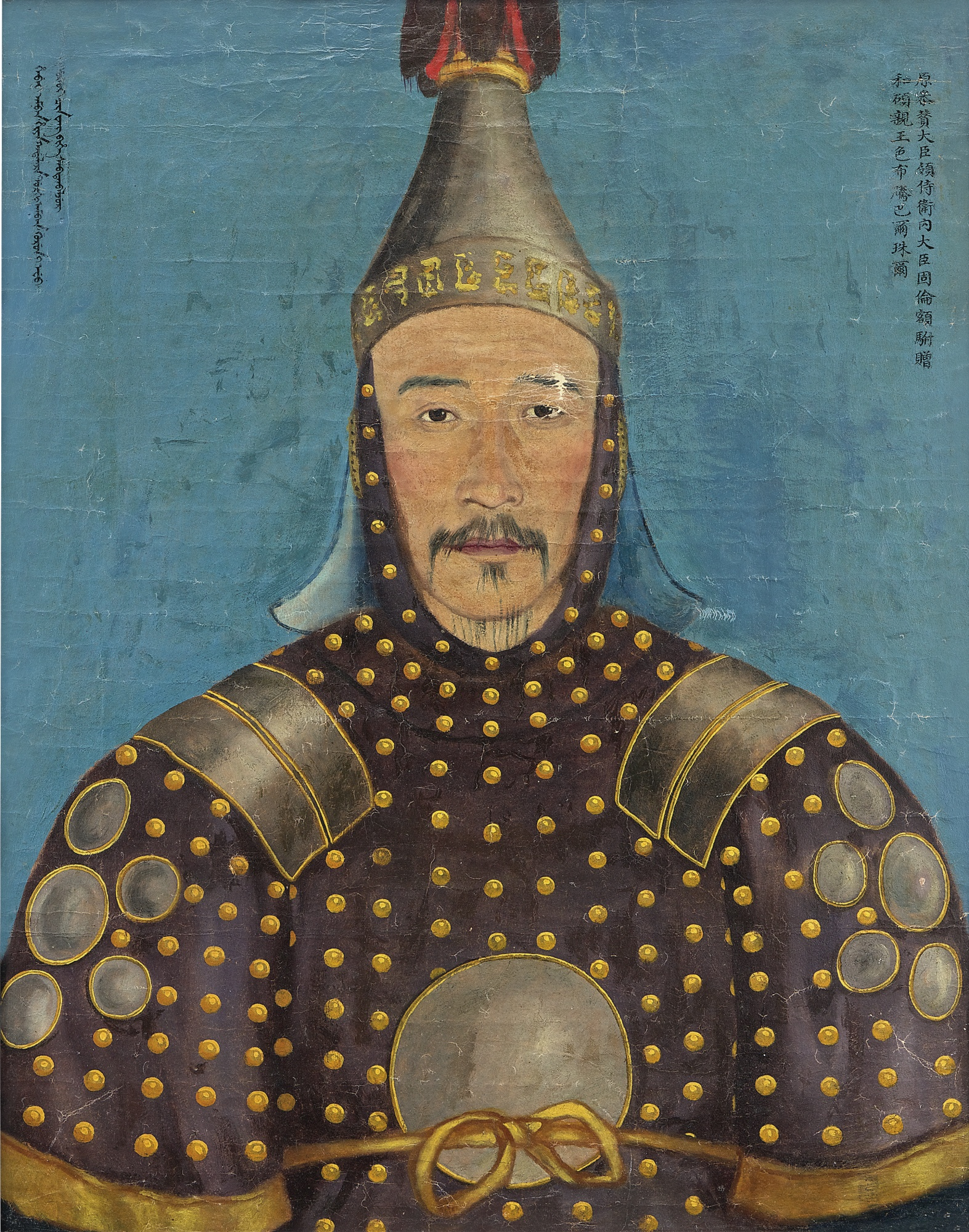 Septen Baljur (色布騰巴勒珠爾), an officer of the Qing Army during Qianlong's era.